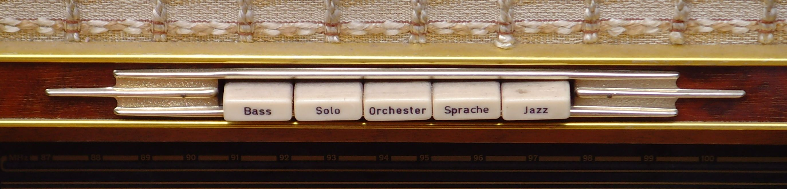 sound style preset switches on a radioset with electron tubes